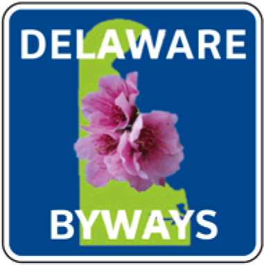 Raster image of a Delaware Byways marker